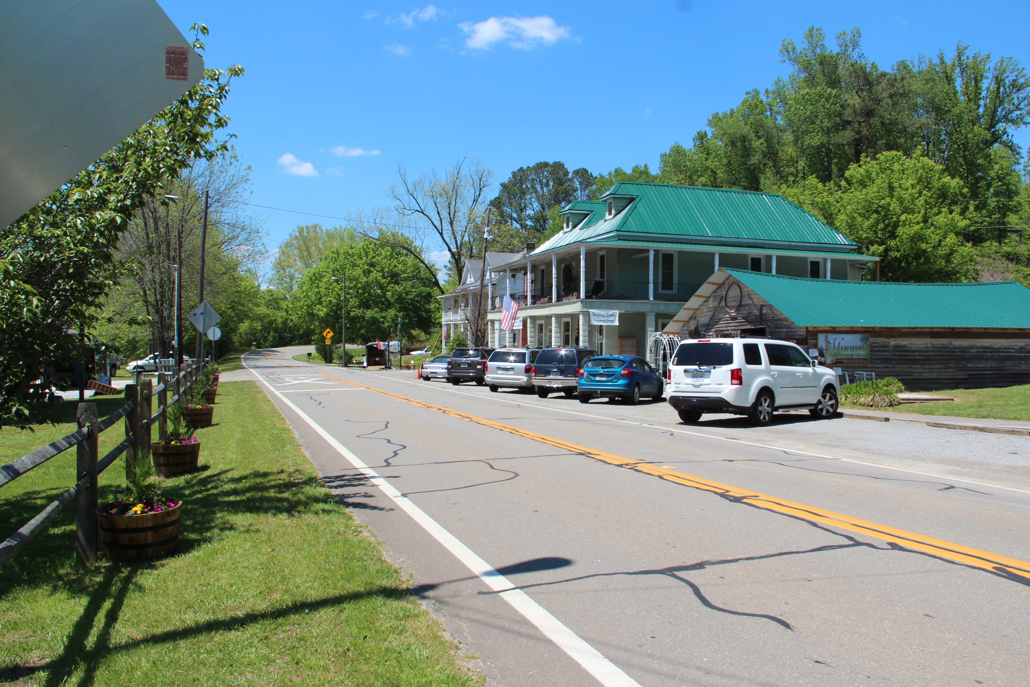 Shops in Talking Rock, Georgia